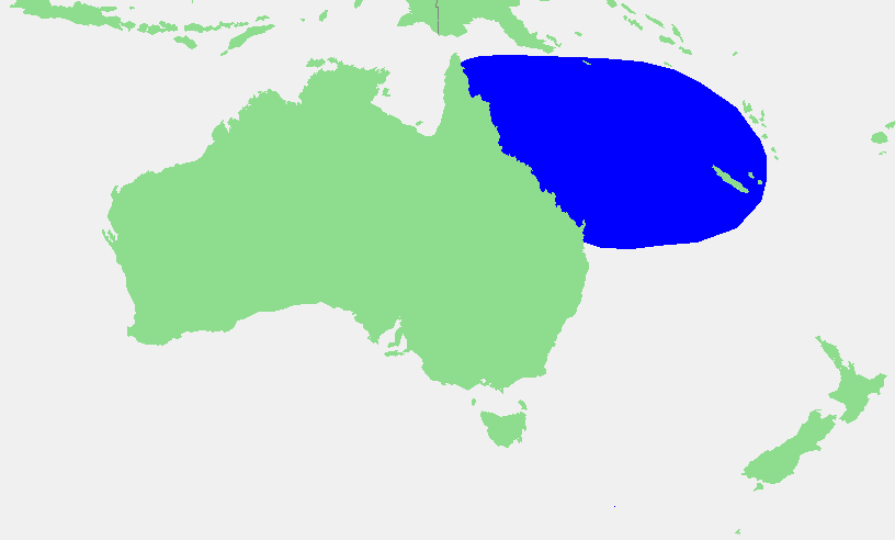 Coral Sea